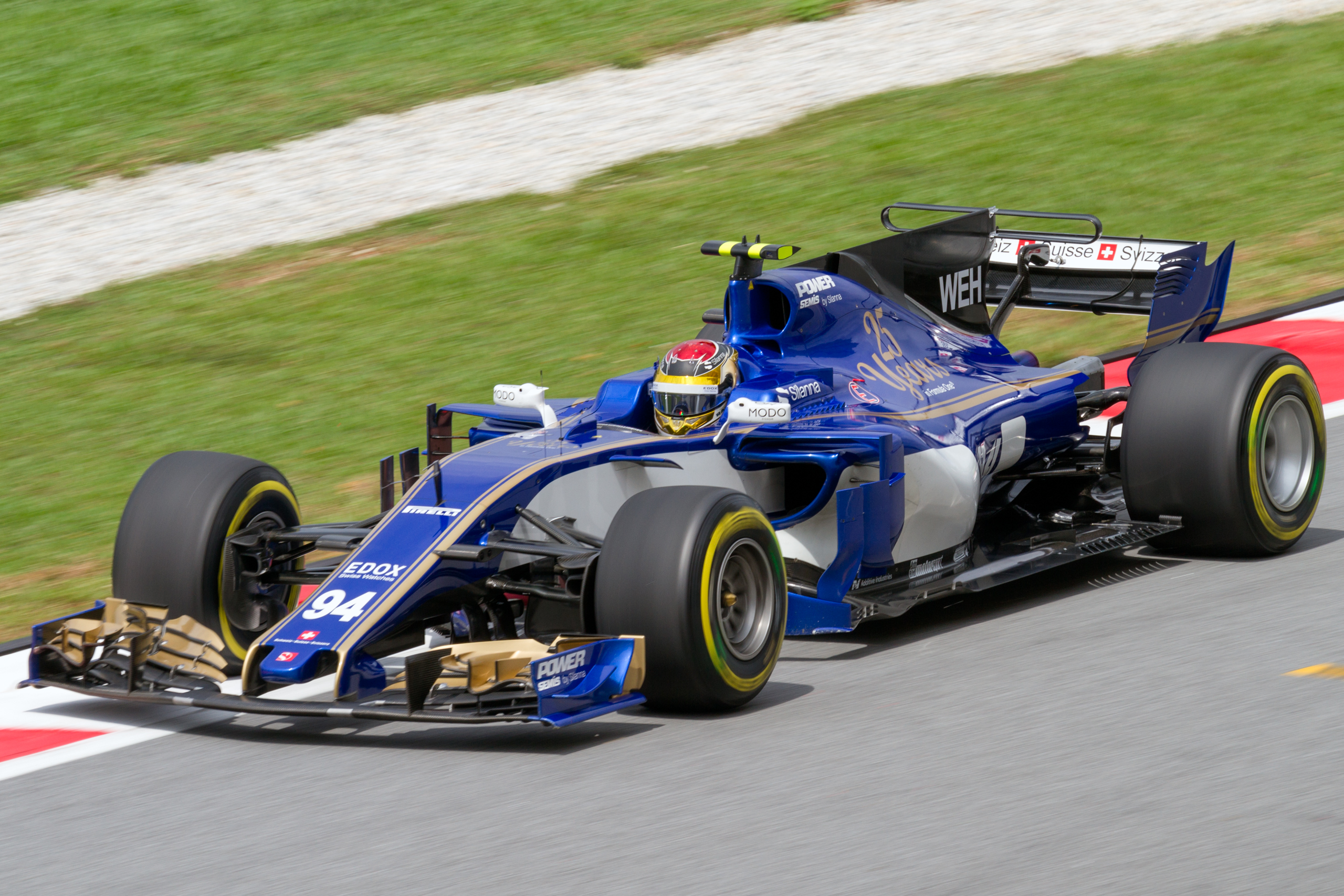 Formula One 2017 Rd.15 Malaysian GP: Pascal Wehrlein (Sauber)